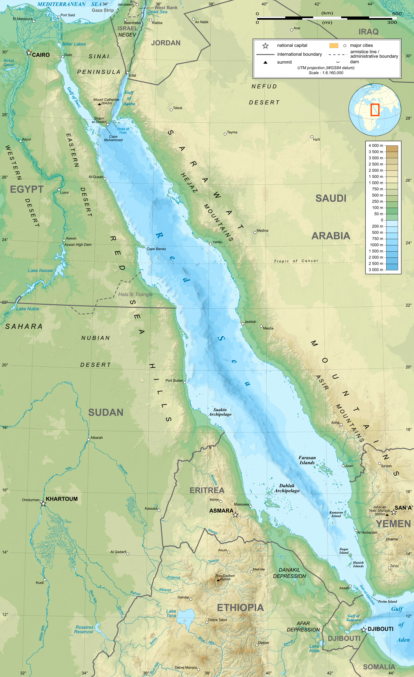 Topographic map in English of the Red Sea, UTM projection (WGS84 datum).Note : for translation purpose, use the SVG version.